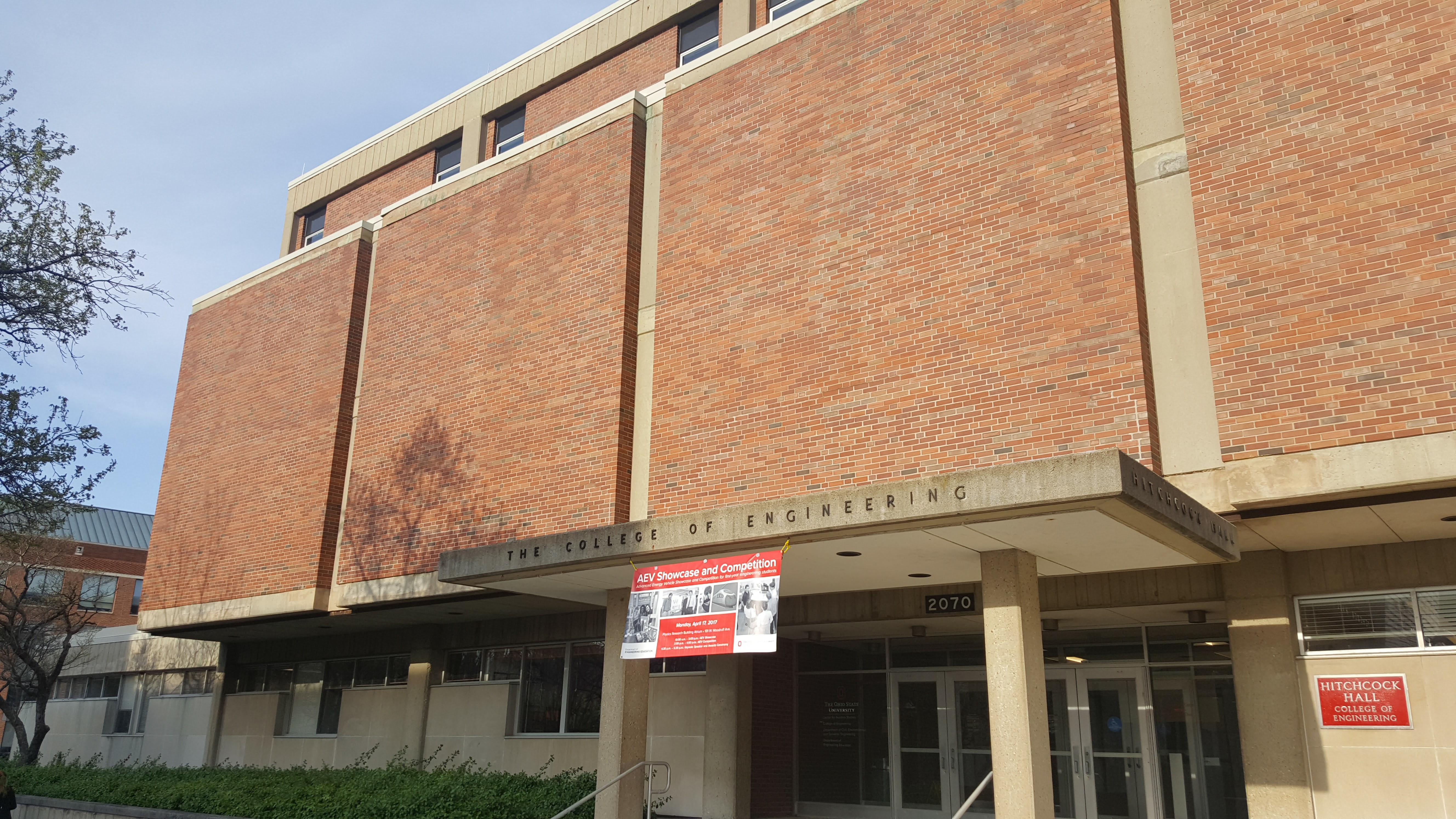 Western entrance to Hitchcock Hall